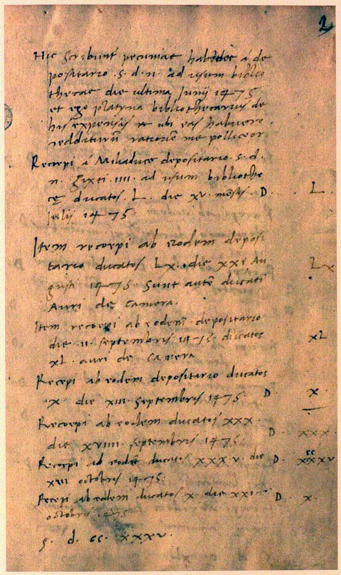 The beginning of the first book of accounts of the Vatican librarian and humanist Bartolomeo Platina. Autograph. Rome, Archivio di Stato, Camerale I, Biblioteca Apostolica Vaticana 1497, fol. 2r.